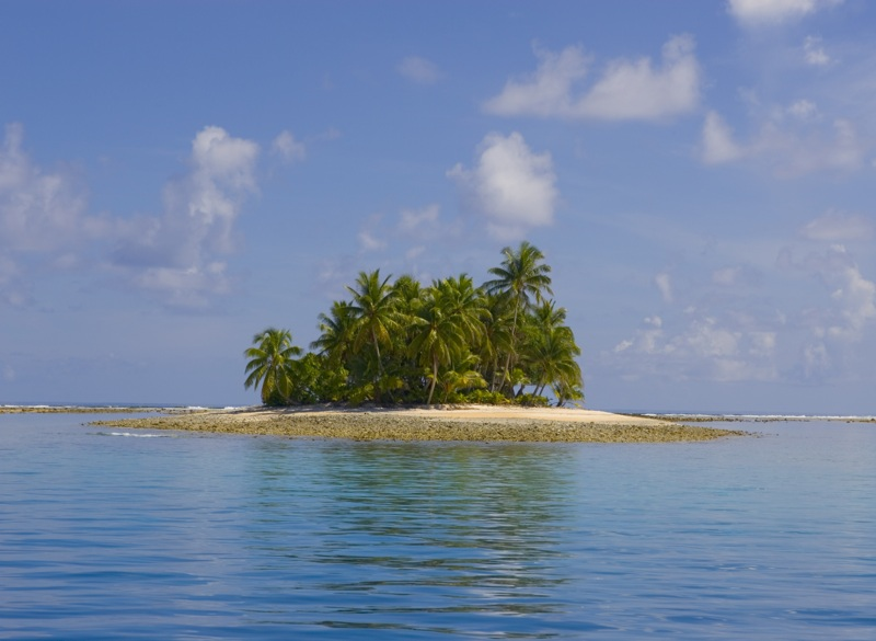 Marshall Islands Marshall Islands